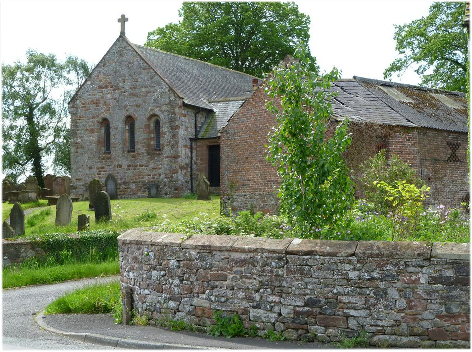 Beaumont's St.Mary church (Carlisle) is the measured location of Turret 70A (Hadrians Wall) in Britain, looking SW.